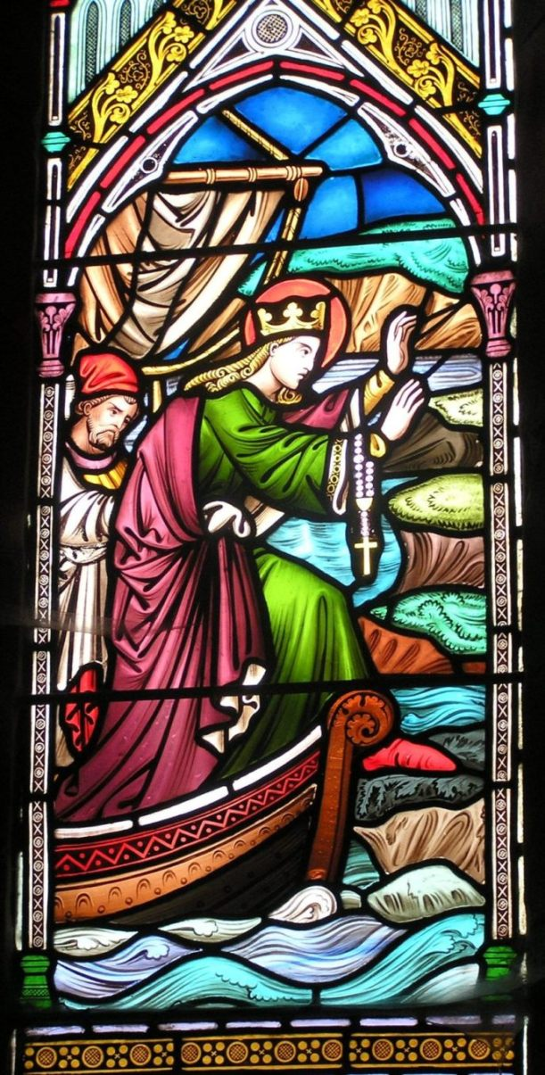 Stained glass window at St Bees Priory depicting the arrival of St Bega at St Bees, sometime after 850 AD.